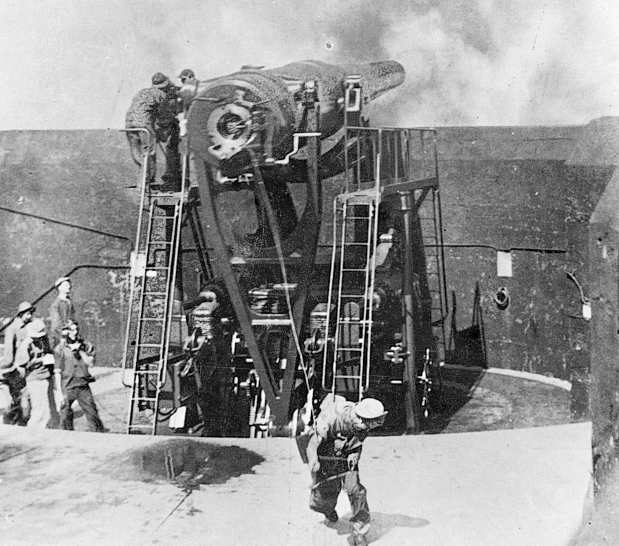 This remarkable image shows the moment of firing of a 12-inch breech-loading gun, M1895, on a M1897 disappearing carriage. The soldier in the foreground has just pulled the long firing lanyard, which can be seen stretching up to the breechlock of the gun. The gun is "in battery", raised just above the edge of the parapet of the gun position. The crew member on the catwalk at the upper left of the gun is looking through the optical telescopic gun sight. On the left in the group of crew members can be seen the talker (wearing a headset), who passes firing data from the Range Section of the battery to the man on the gun sight. The file for this image was provided by the Coast Defense Study Group and was edited for Wikipedia by cropping and straightening the original, as well as by adjusting brightness, contrast and sharpening.